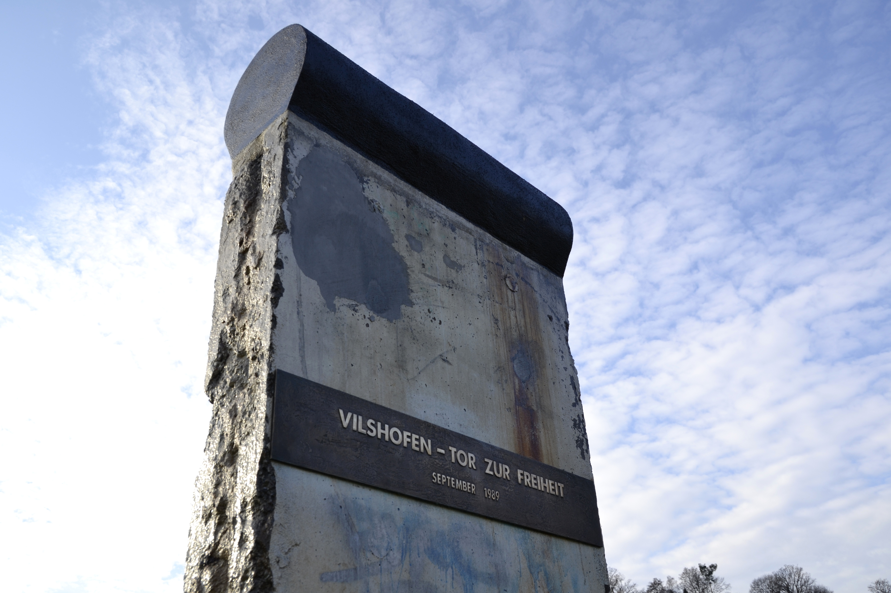 The Berlin Wall memorial in Vilshofen an der Donau, Bavaria.